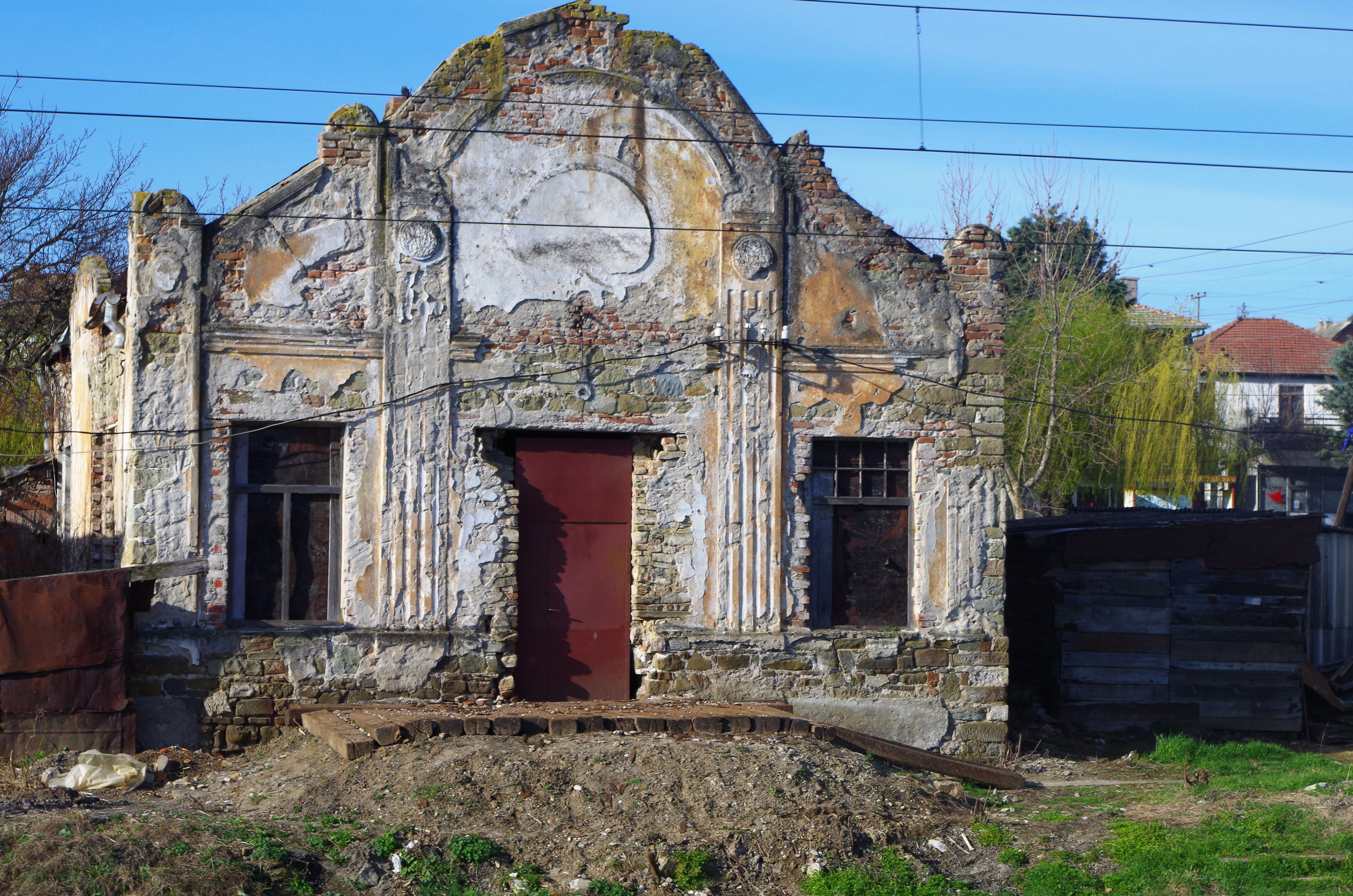 Old Gradsko train station